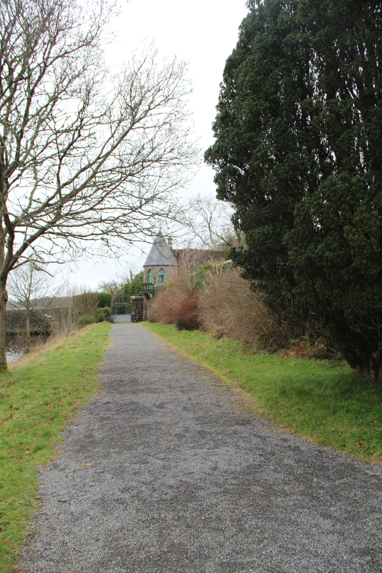 Pathway along the shore of Lough Rynn from Mac Raghnaill Castle to the Walled Gardens.